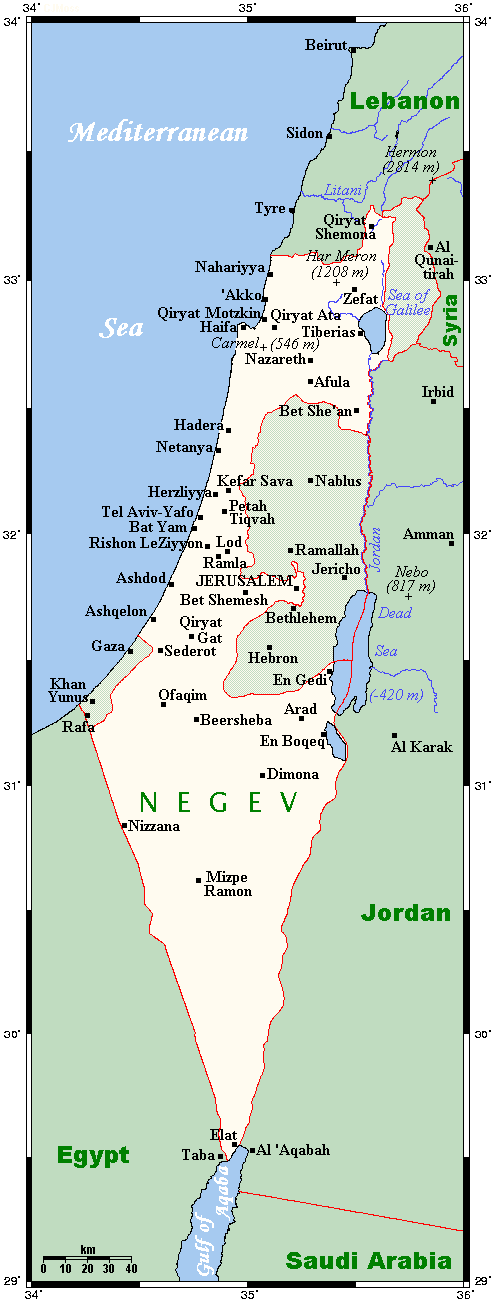 A map showing Israel's cities and main towns, along with nearby areas. Borders shown are those generally recognized (that is, those in force before the Six-Day War) except Jerusalem city limits as determined by Israel. This map's source is here, with the uploader's modifications, and the GMT homepage says that the tools are released under the GNU General Public License.